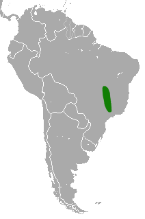 Faint-striped Opossum (Monodelphis umbristriata) range